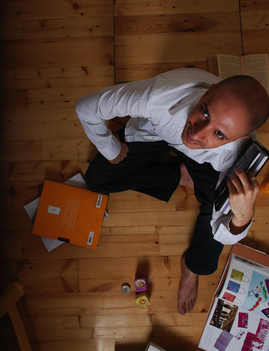 Song writer/composer, producer DerHova